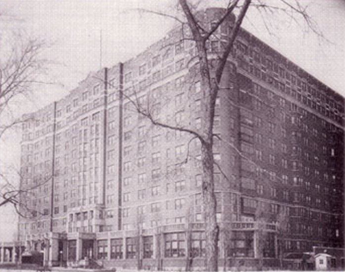 Gardiner General Hospital was located in Chicago